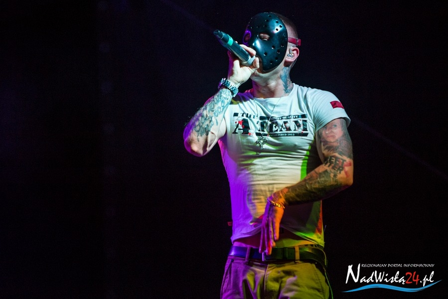 Polish rapper Kaen